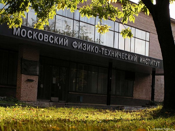 The main building of MIPT.